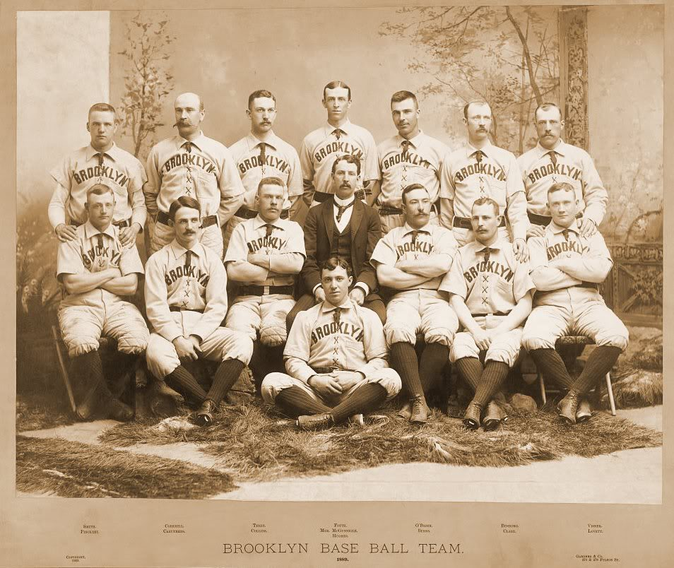 1889 Brooklyn Bridegrooms baseball teamTop row, left to right: Germany Smith (SS), Pop Corkhill (CF), Adonis Terry (P), Dave Foutz (1B), Darby O'Brien (LF), Doc Bushong (C), Joe Visner (C/OF)Bottom row, left to right: George Pinkney (3B), Bob Caruthers (P), Hub Collins (2B), Bill McGunnigle (MGR), Oyster Burns (RF), Bob Clark (C), Tom Lovett (P)Seated on ground: Mickey Hughes (P)